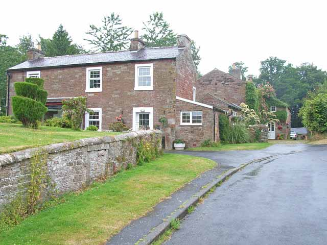 Roses round the door. Cottages at Townhead, Hayton